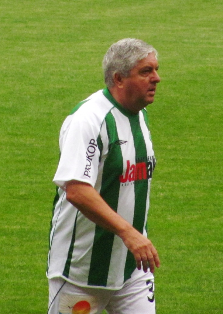 Karol Dobiaš, Czechoslovak football player